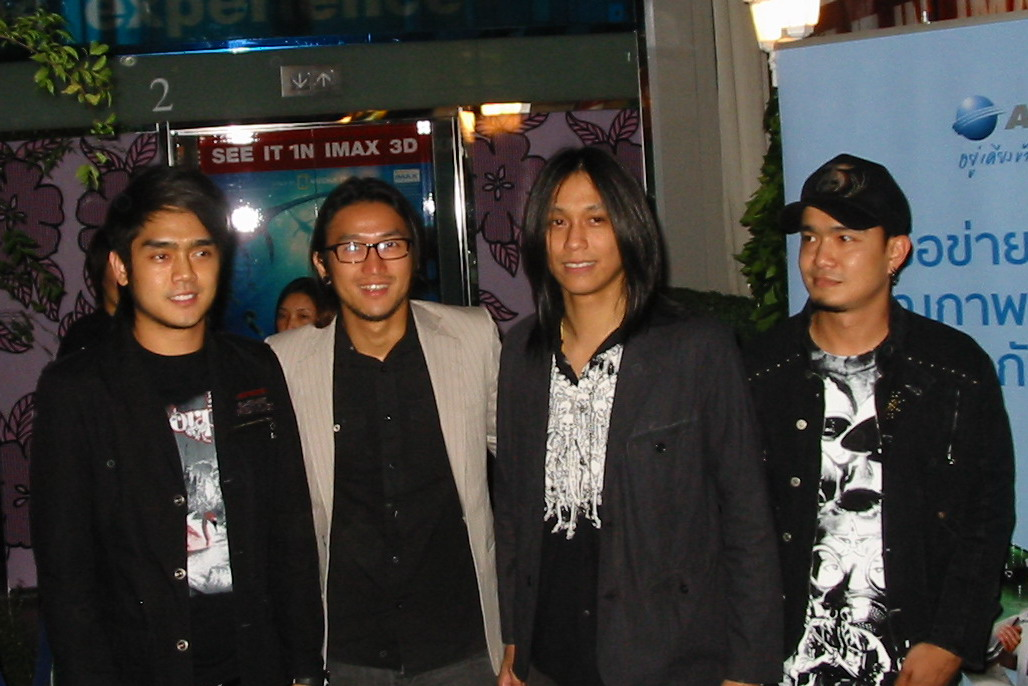 Bodyslam (Thai band) at Star Entertainment Awards 2007